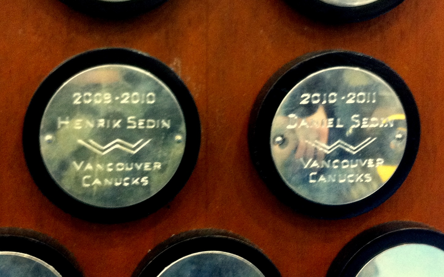 Henrik and Daniel Sedins' plaques on the National Hockey League's Art Ross Trophy for leading the league in point-scoring for the 2010–11 and 2011–12 seasons, respectively.